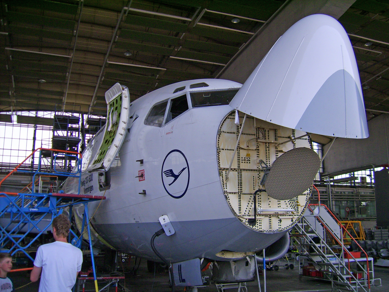 Weather Radar ("phase array/slot antenna") in a Boeing 737-530 (D-ABIL Memmingen) operated by Lufthansa